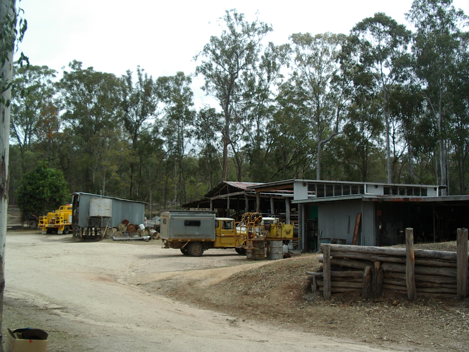 This is an image I took of the workshop at St Peters' outdoor education centre, Ironbark. Sp0kk 15:39, 12 August 2006 (UTC)